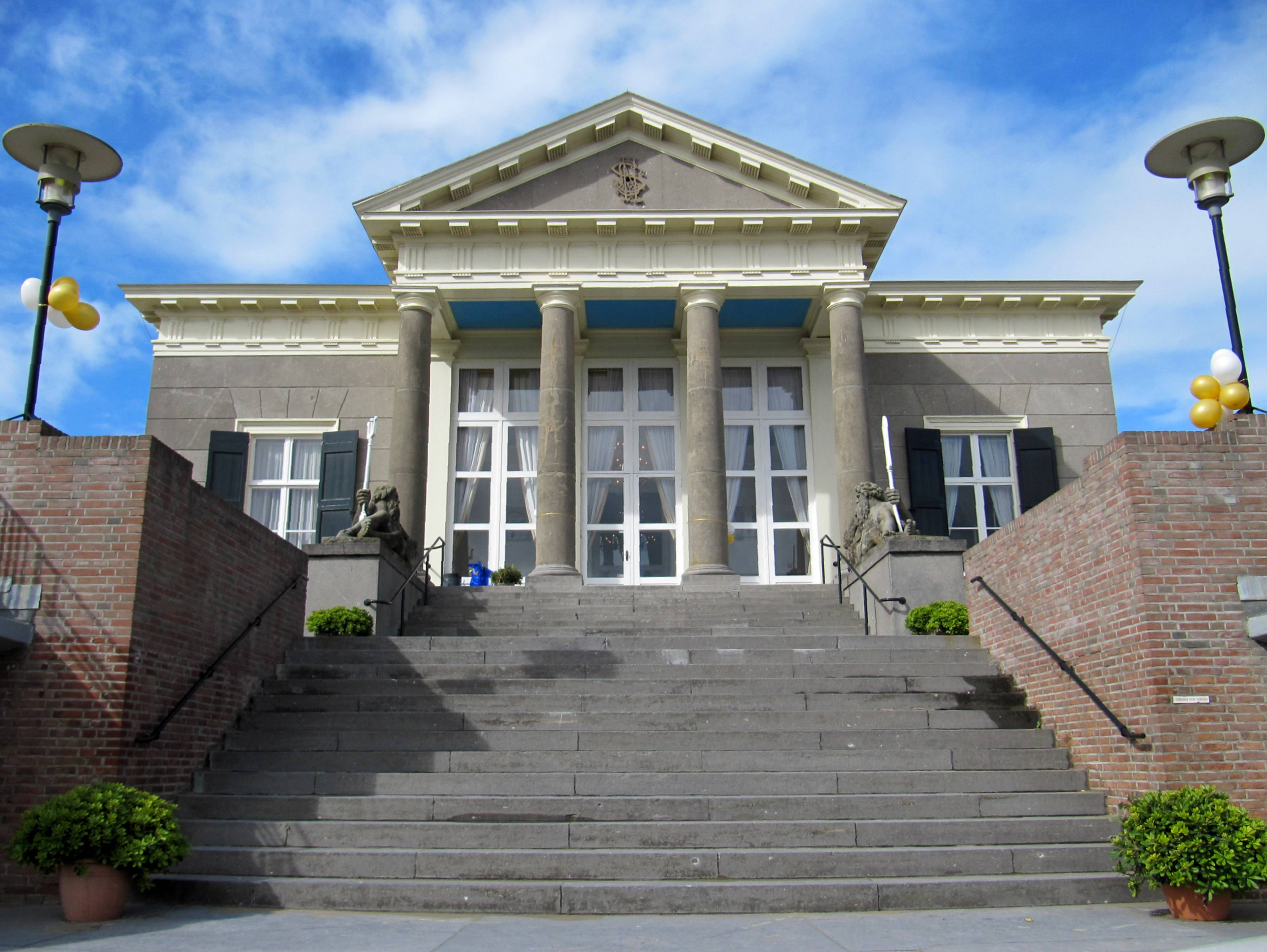 Paviljoen von Wied - Pellenaerstraat 4, The Hague, the Netherlands